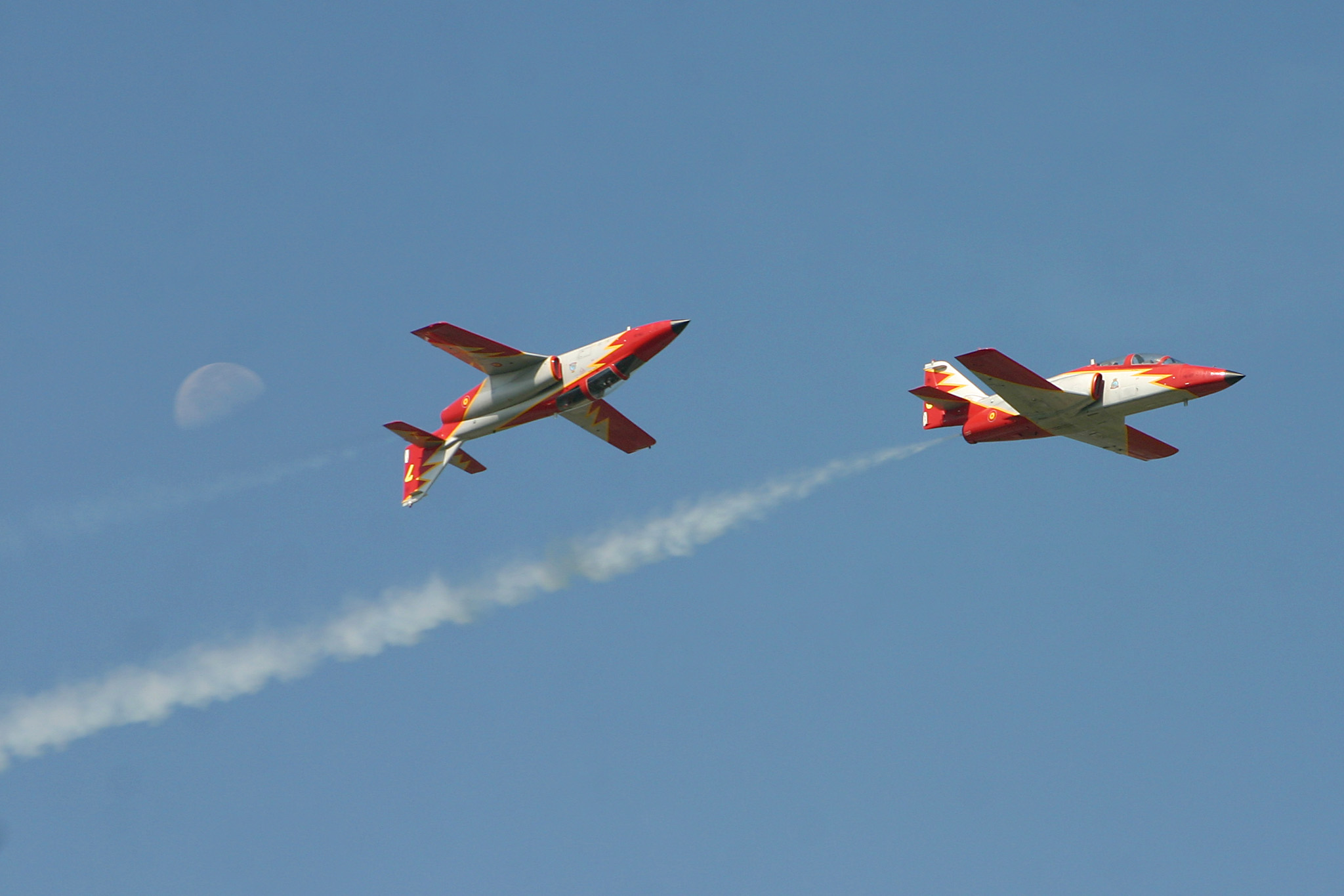 CASA C-101, Patrulla Águila at Air 04, Payerne, Switzerland